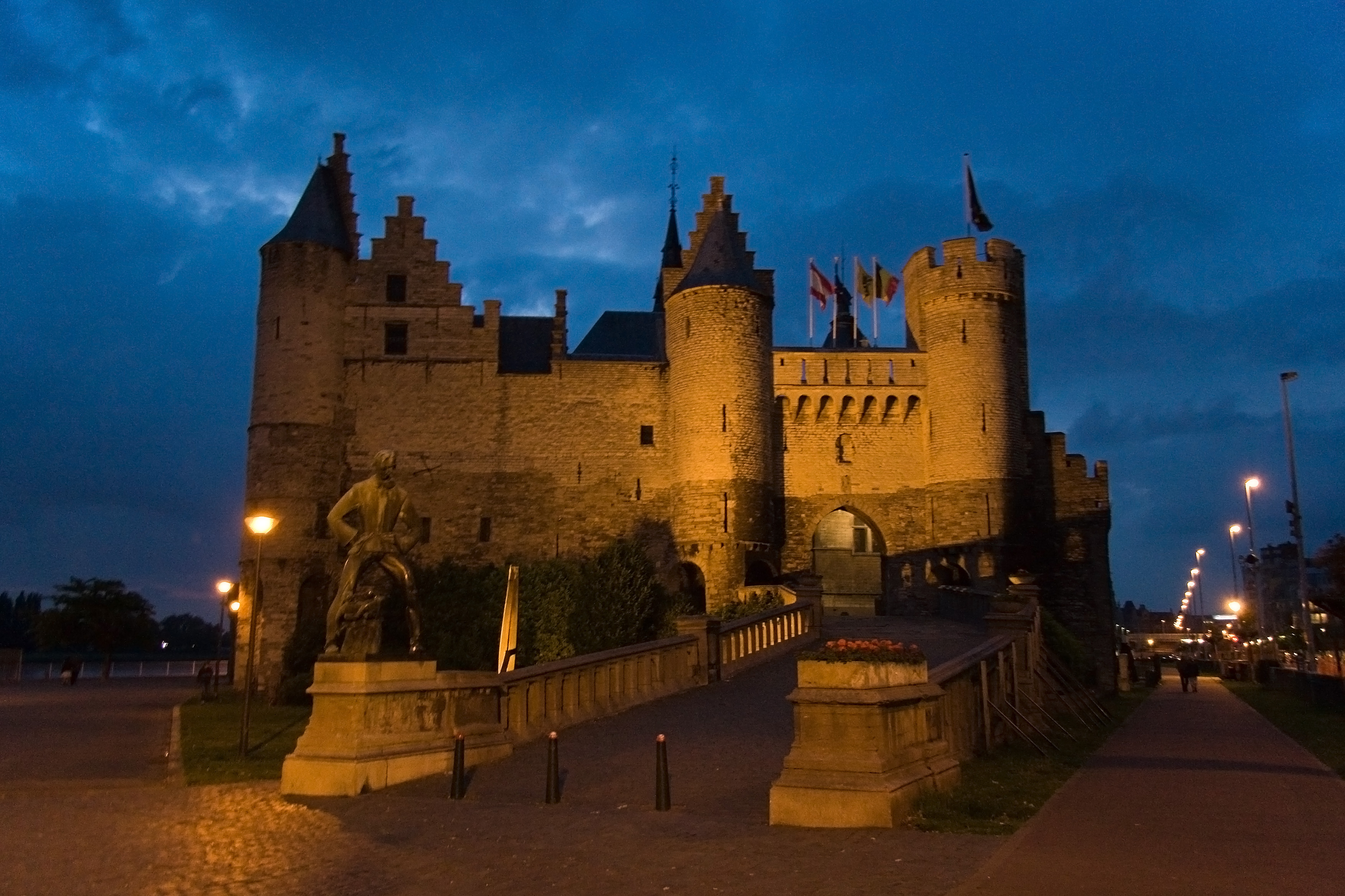 Het Steen in Antwerp, Belgium.